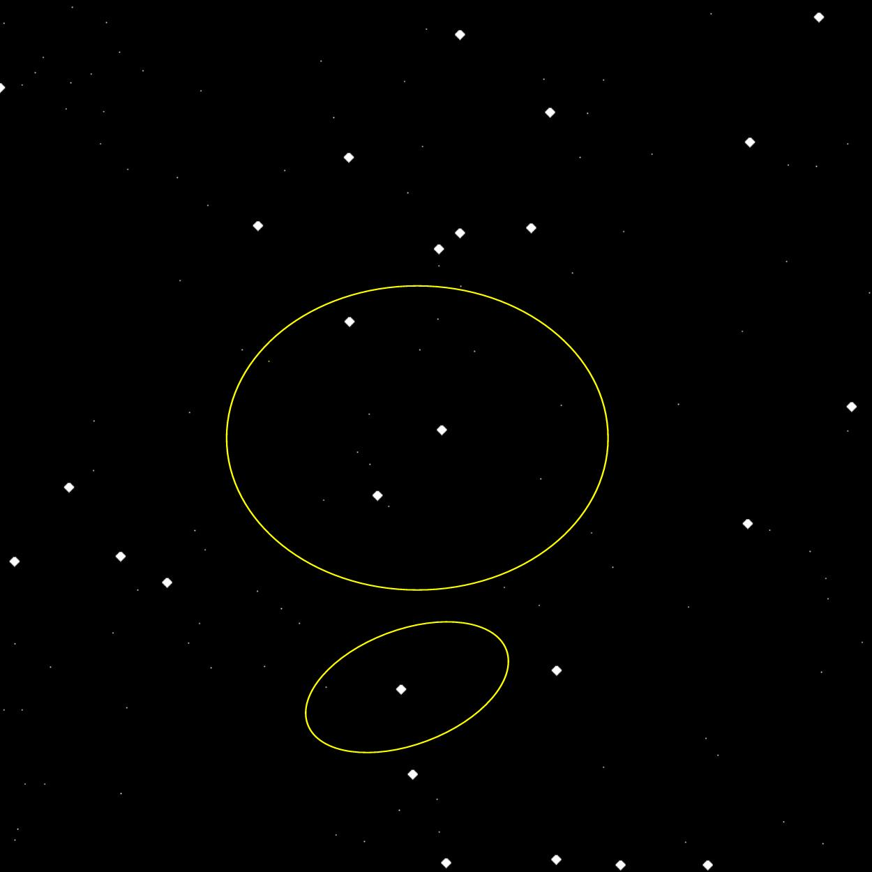 A map of galaxy NGC 1 and NGC 2. The yellow outlines are the borders of the galaxies.